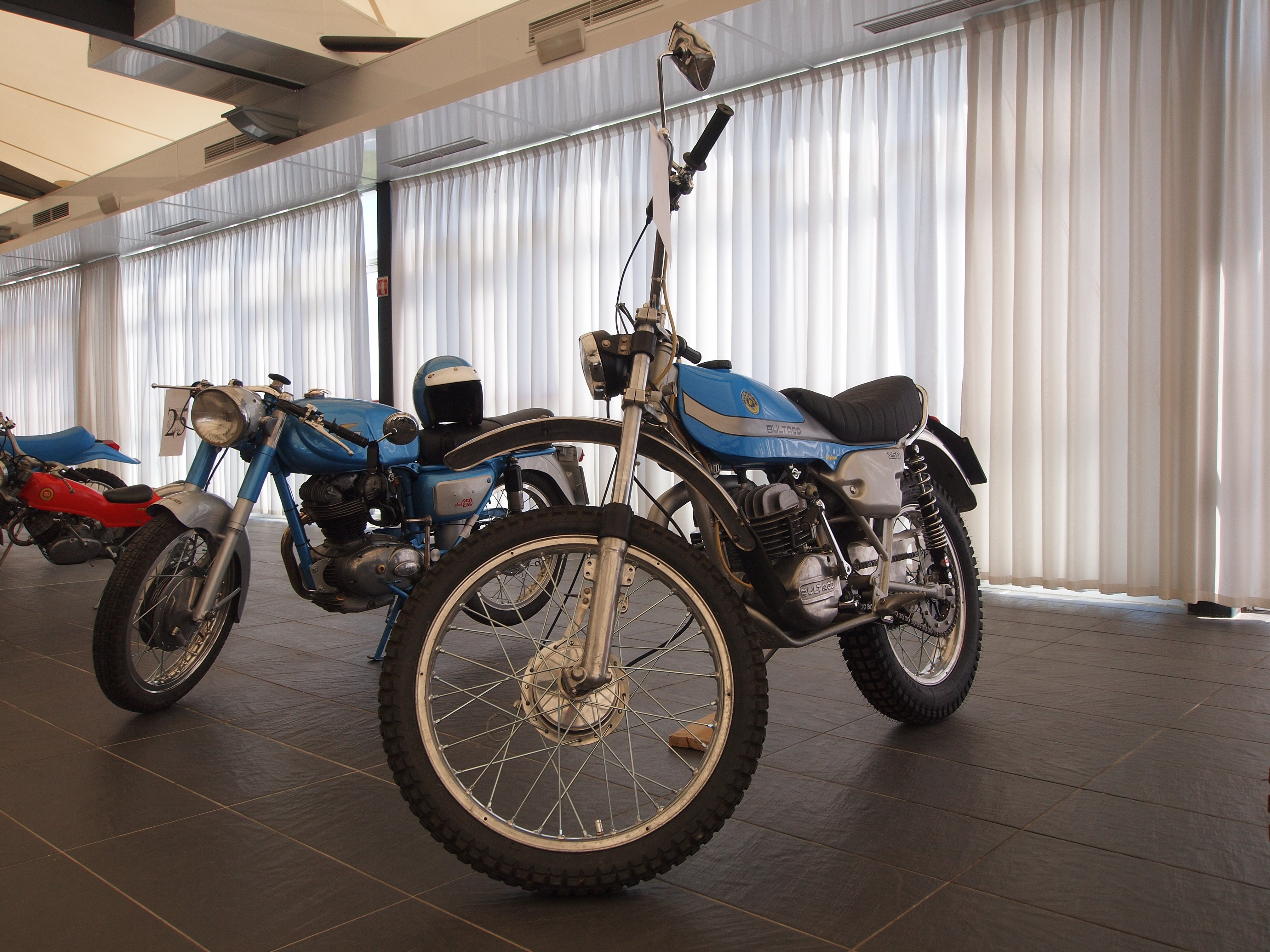 Bultaco Alpina 250cc motorcycle, at exhibition in Zamora (Spain, 2012)